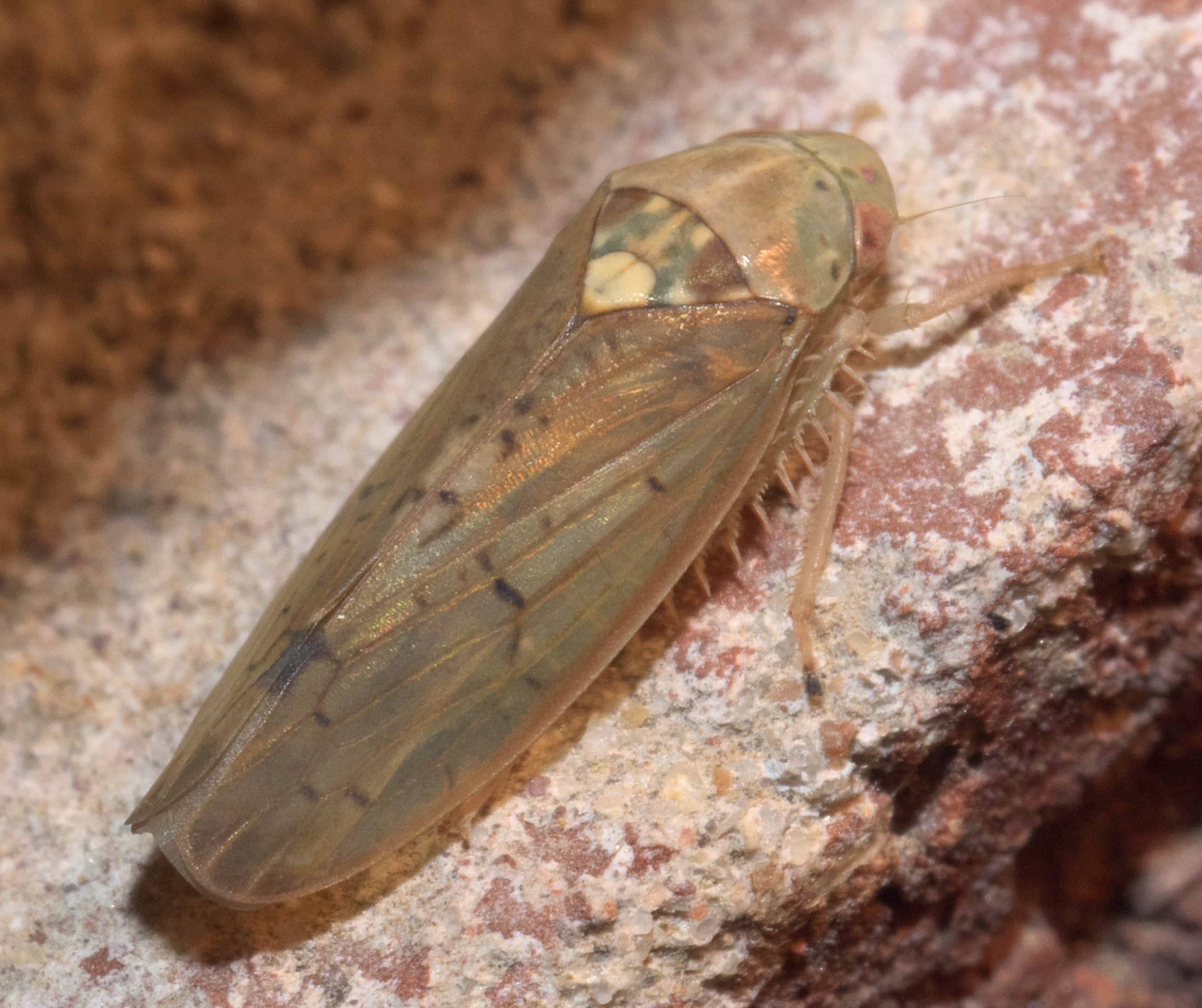 Ponana quadralaba, Family: Leafhoppers, Size: around 9 mm, ID Confidence: 98